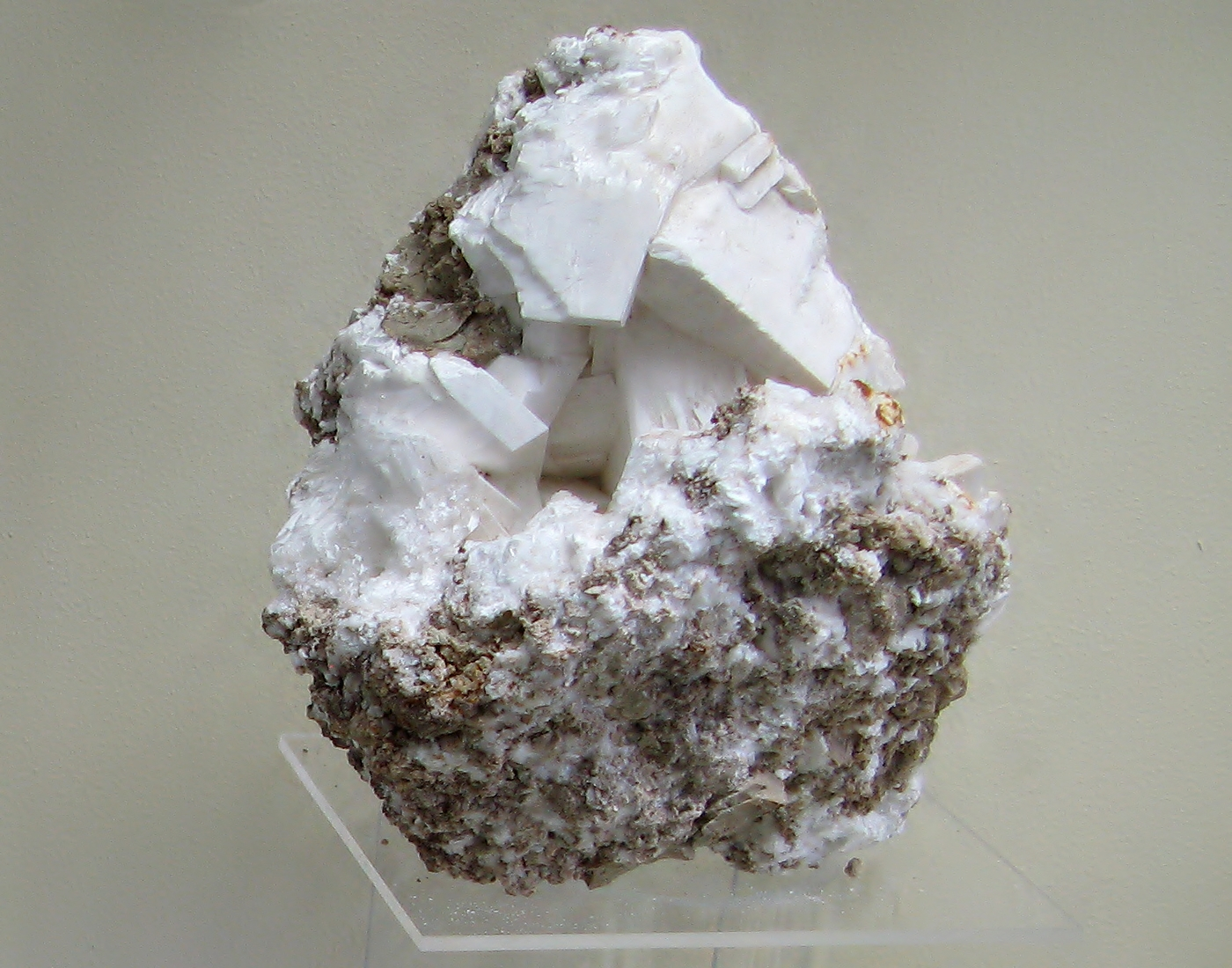 Inyoite - Locality: Inyo County, Californien, USA - Exposed in the Mineralogical Museum, Bonn, Germany